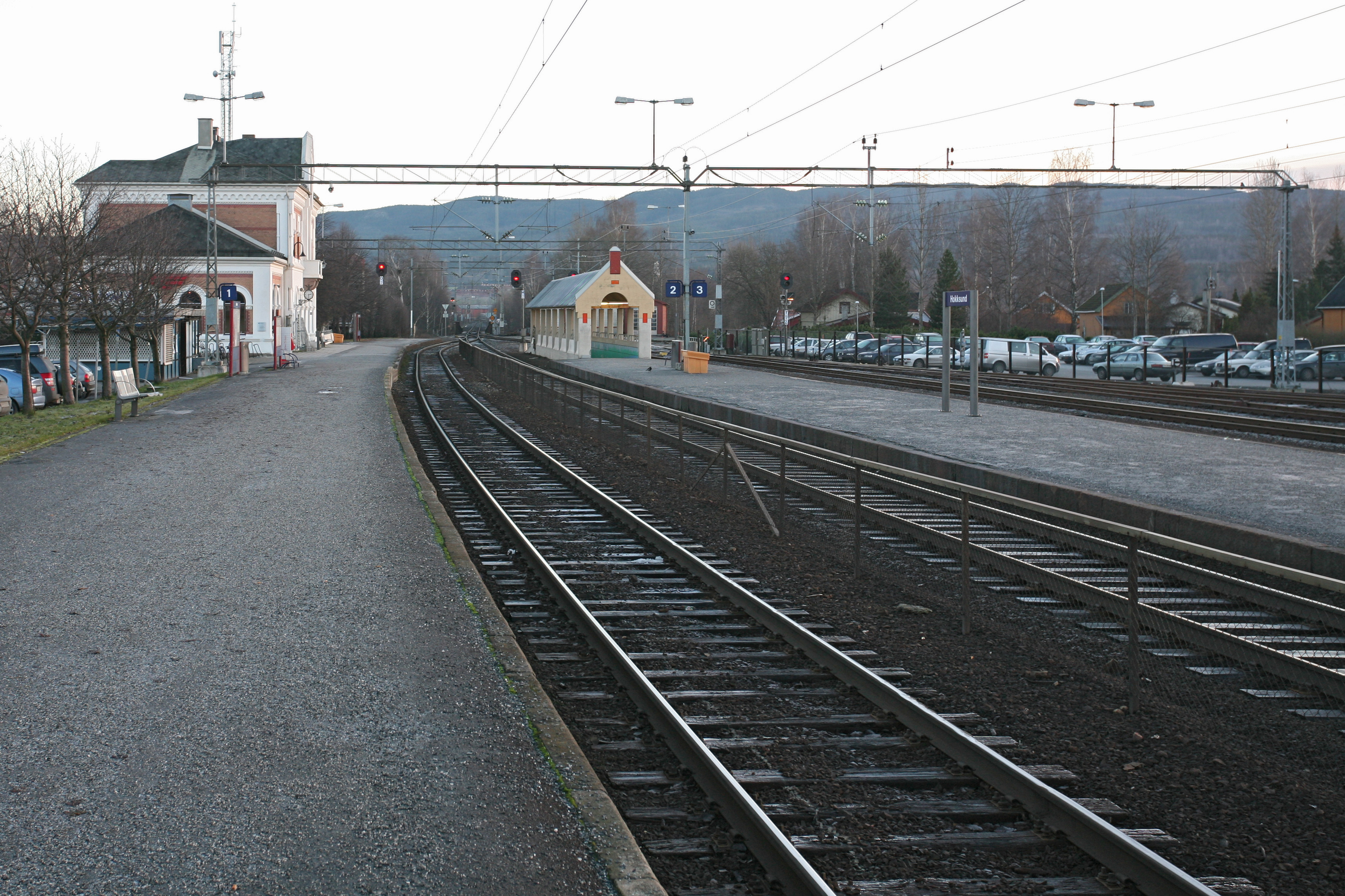 Picture of Hokksund Railway Station